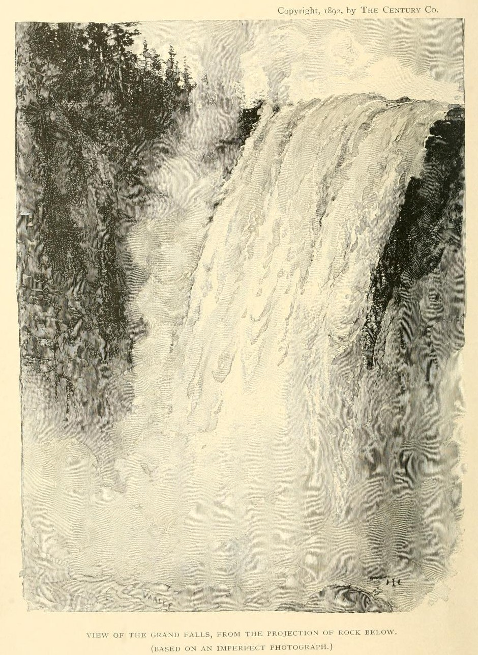 Caption: View of the Grand Falls, from the Projection of Rock below. (Based on an imperfect photograph.)